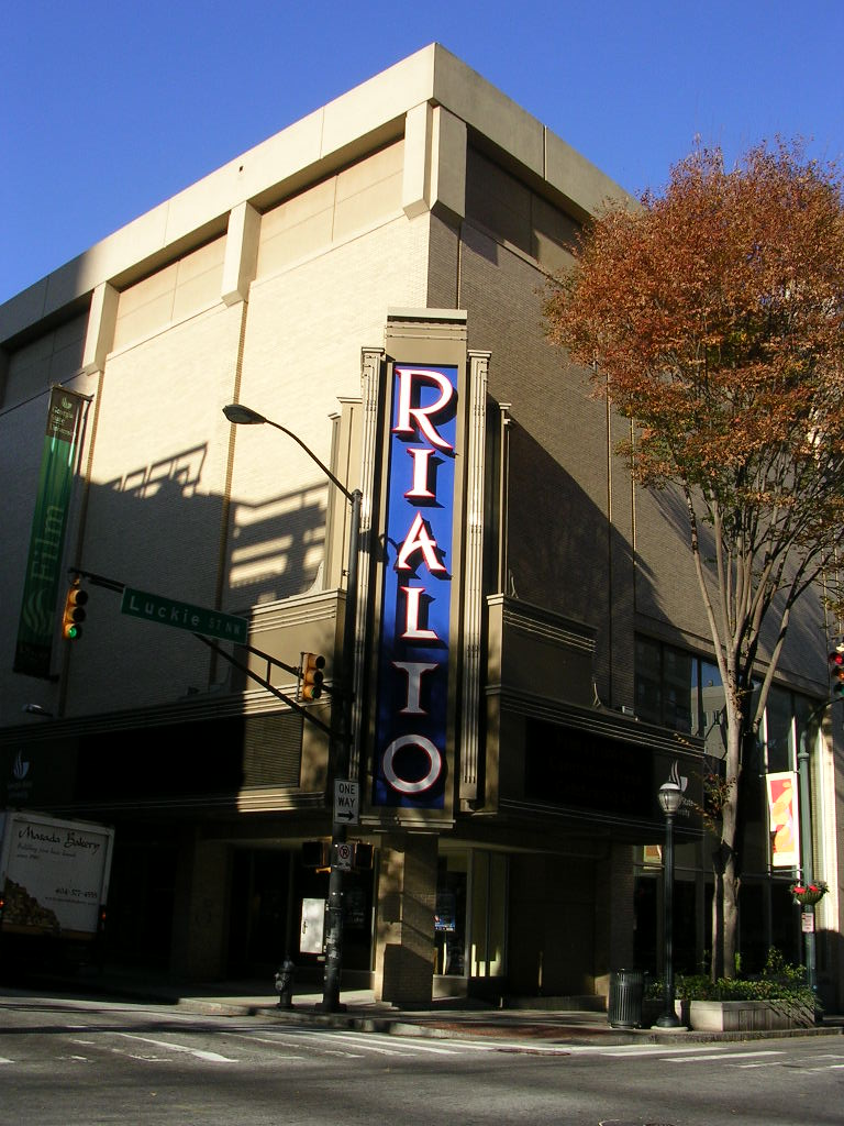 Rialto Center for the Performing Arts at 80 Forsyth Street, NW, Atlanta, Georgia, USA. Part of Georgia State University. 33°45′24″N 84°23′22″W / 33.75667°N 84.38944°W